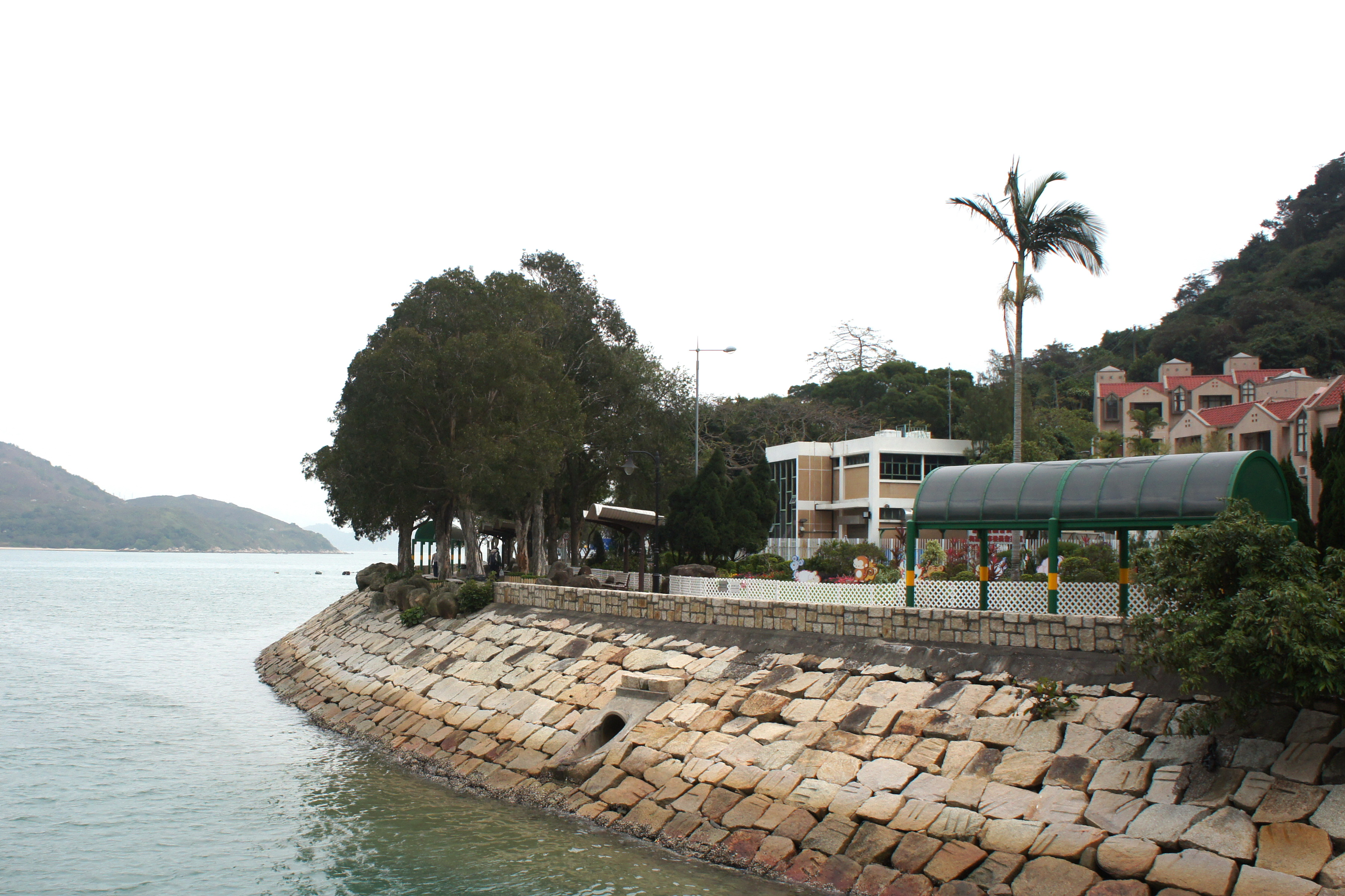 Mui Wo Promenade, Mui Wo, Lantau Island, Hong Kong.